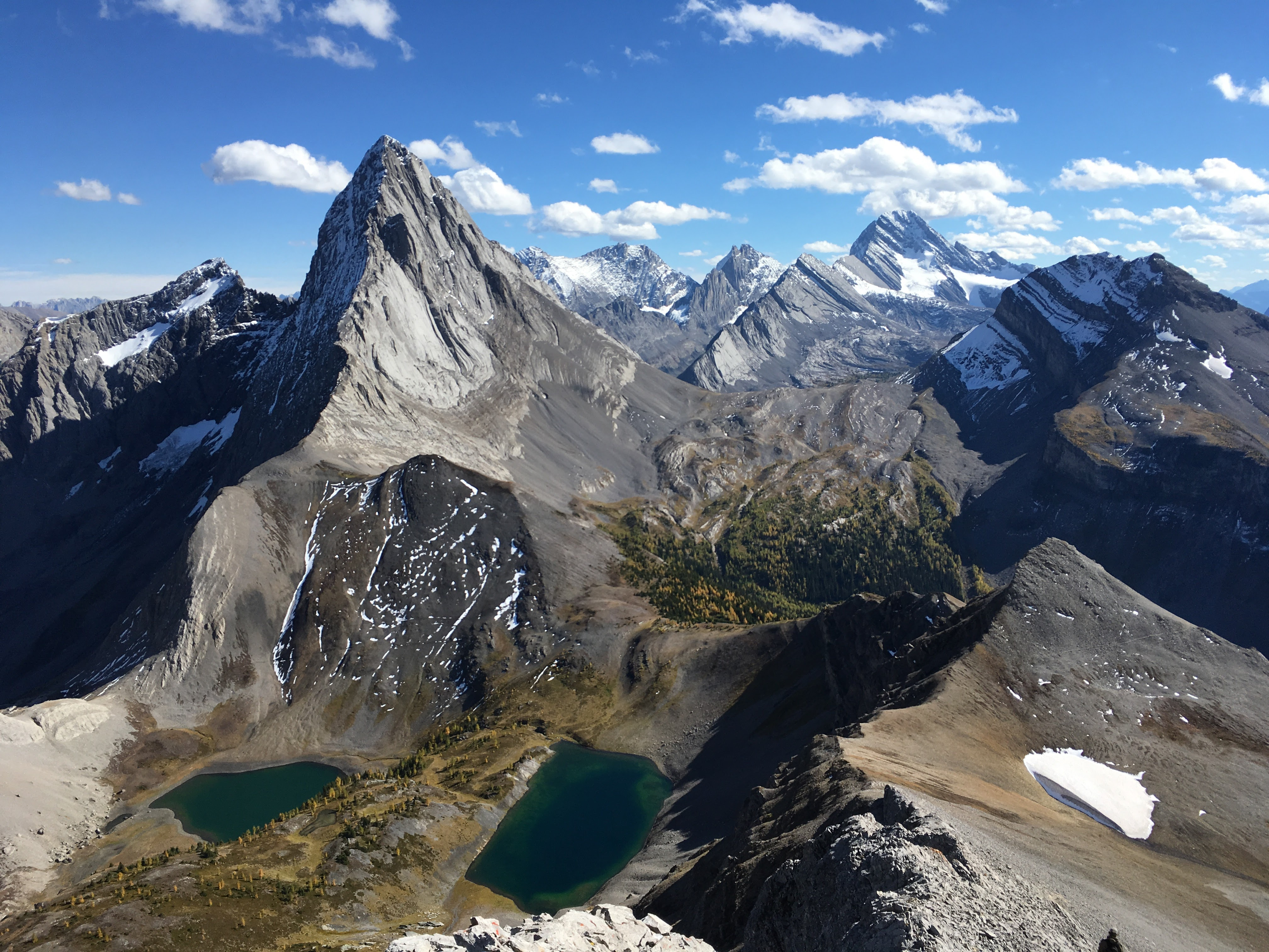 Mt Birdwood and the Birdwood Lakes, taken from Smutwood Peak in Spray Valley Provincial Park, Kananaskis Country, Alberta. This photo was taken in a protected area in Canada, Wikidata item Spray Valley Provincial Park (Q3364735)